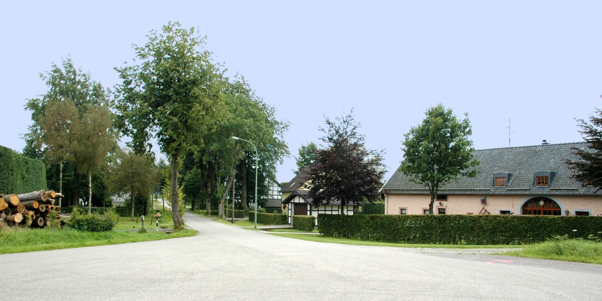 The German exclave Ruitzhof, part of the town Monschau and only accessable via Belgian territory. Ruitzhof is one of five German exclaves in Belgium that were created in 1920 by Treaty of Versailles.